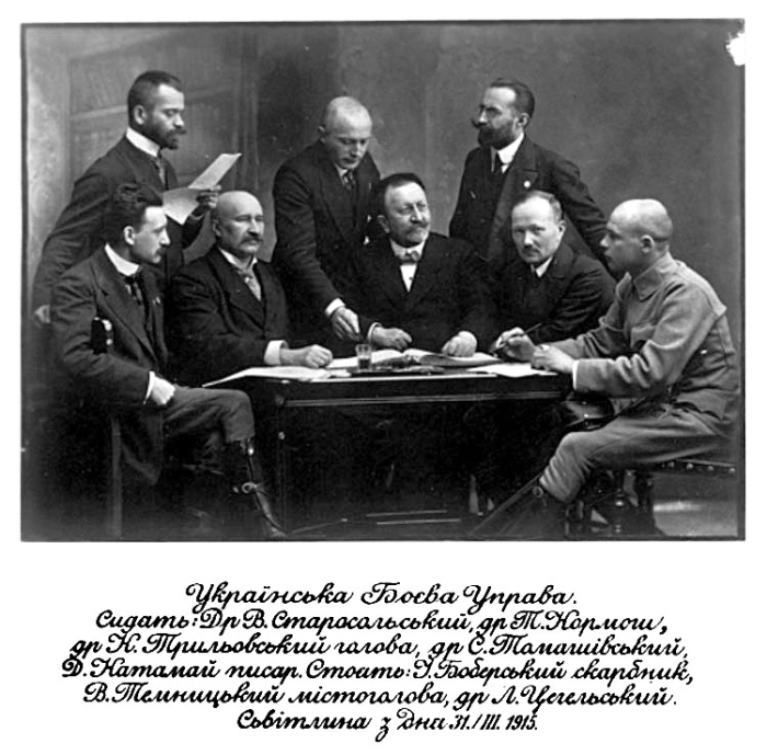 Ukrainian Sich Riflemen. Combat Executive. March 31, 1915. Vienna.